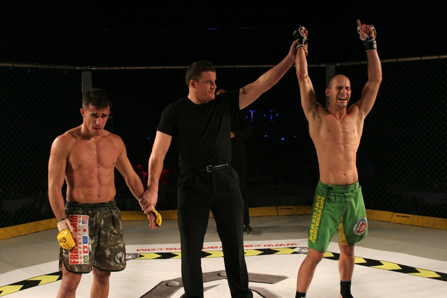 mma batten